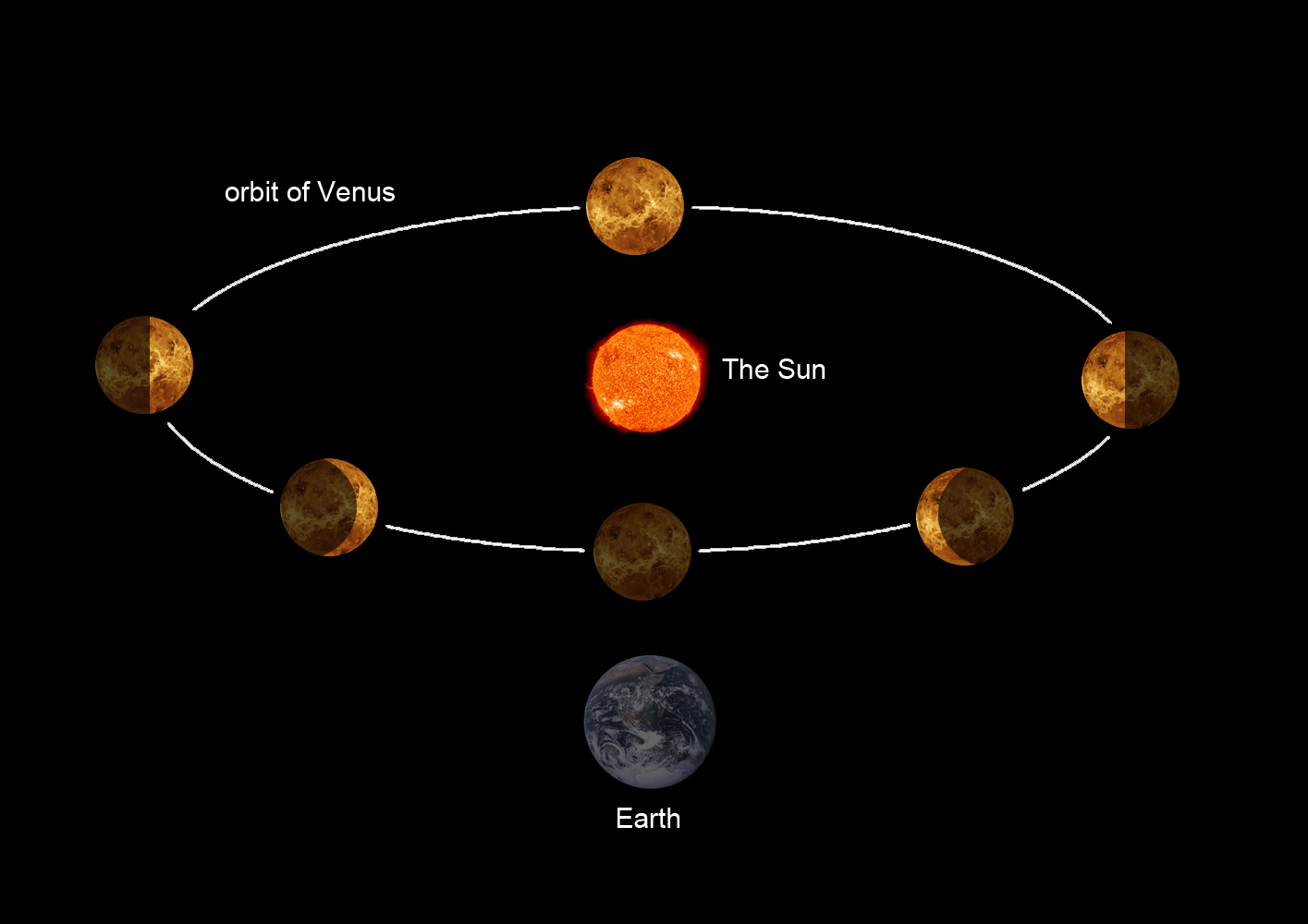 A diagram shows the phases of Venus as seen from the Earth.